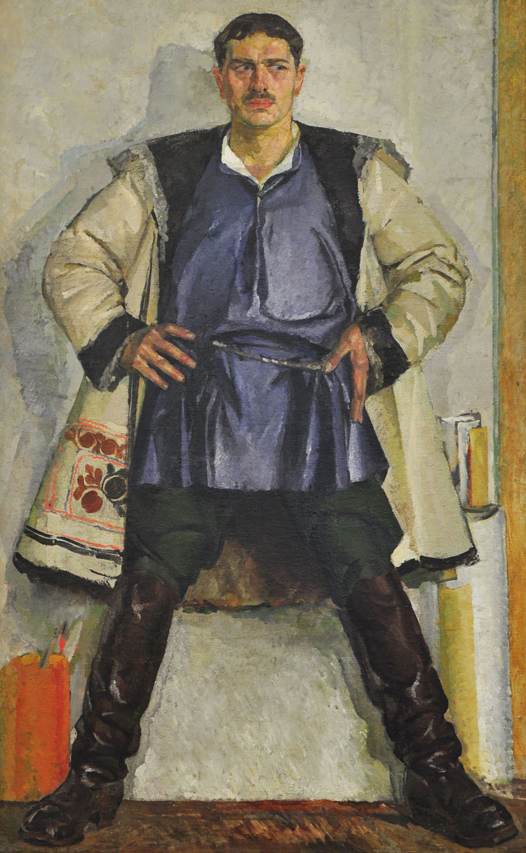 Self-portrait in a white coatlabel QS:Len,"Self-portrait in a white coat" label QS:Luk,"Автопортрет у білому кожусі"